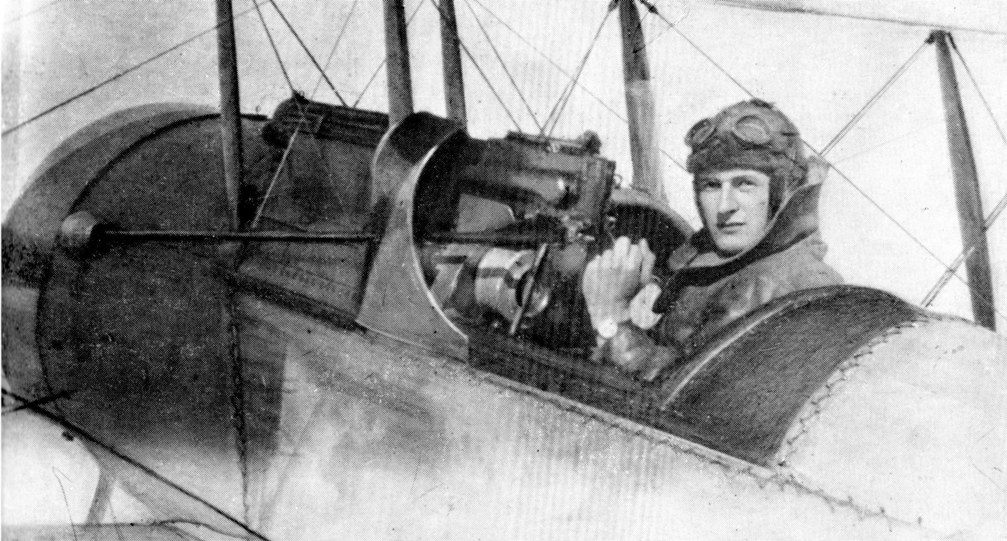 Young pilot in cockpit of a Bristol Scout biplane. A machine gun is fitted, synchronised to fire through the propeller by a Vickers-Challenger interrupter gear. Taken mid/late 1916.